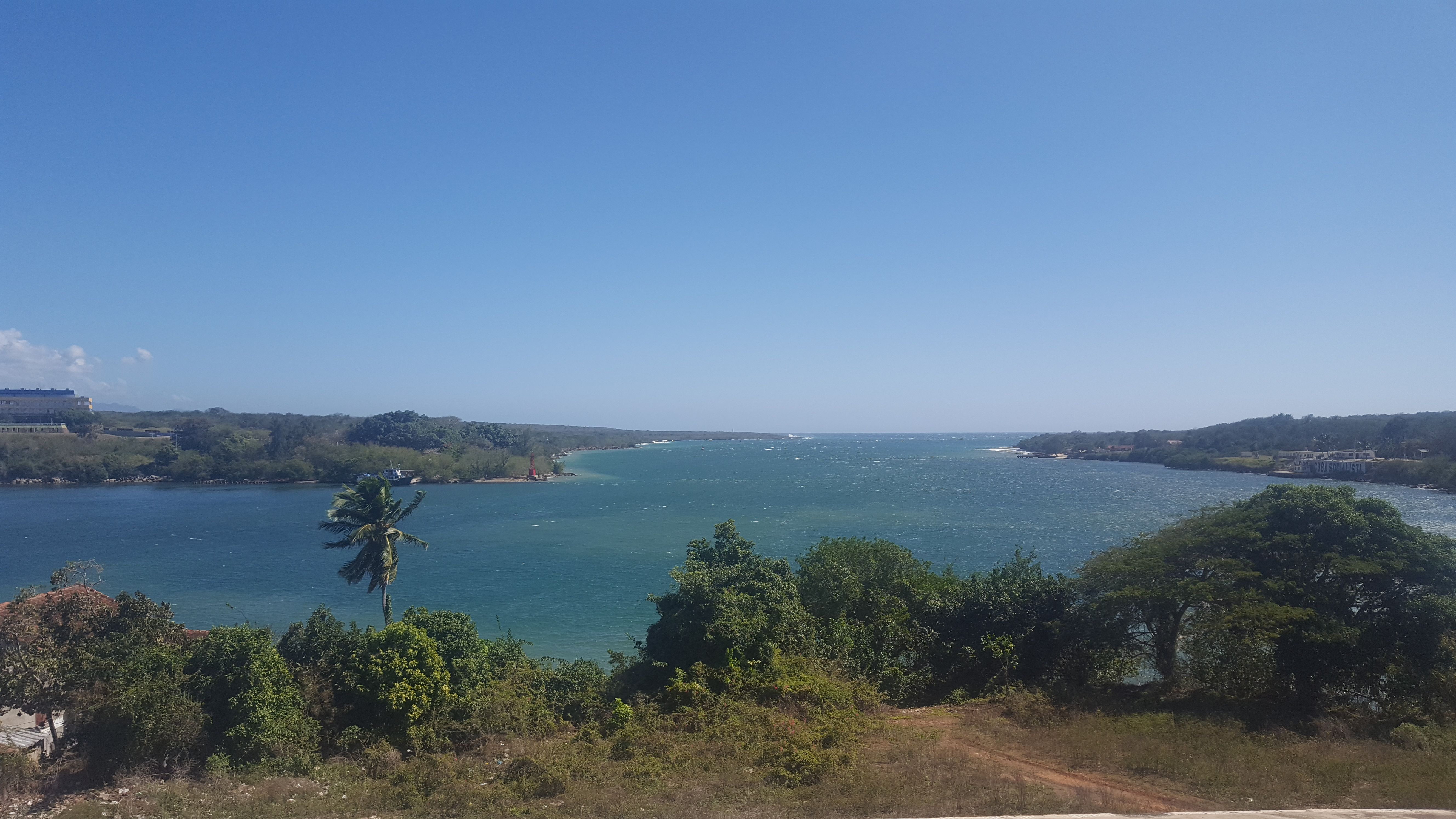 Cienfuegos Bay in Cuba, as seen from Castillo de Jagua